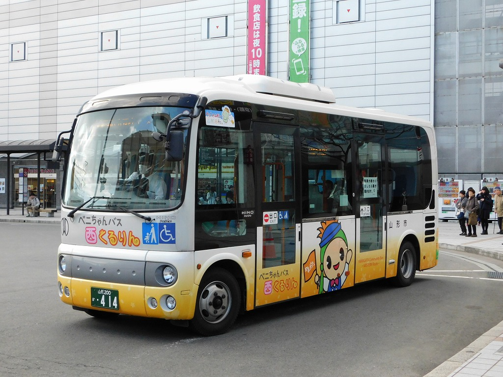 Yamako bus (Yamagata city community bus West-kururin) Hino Poncho (SKG-HX9JLBE)